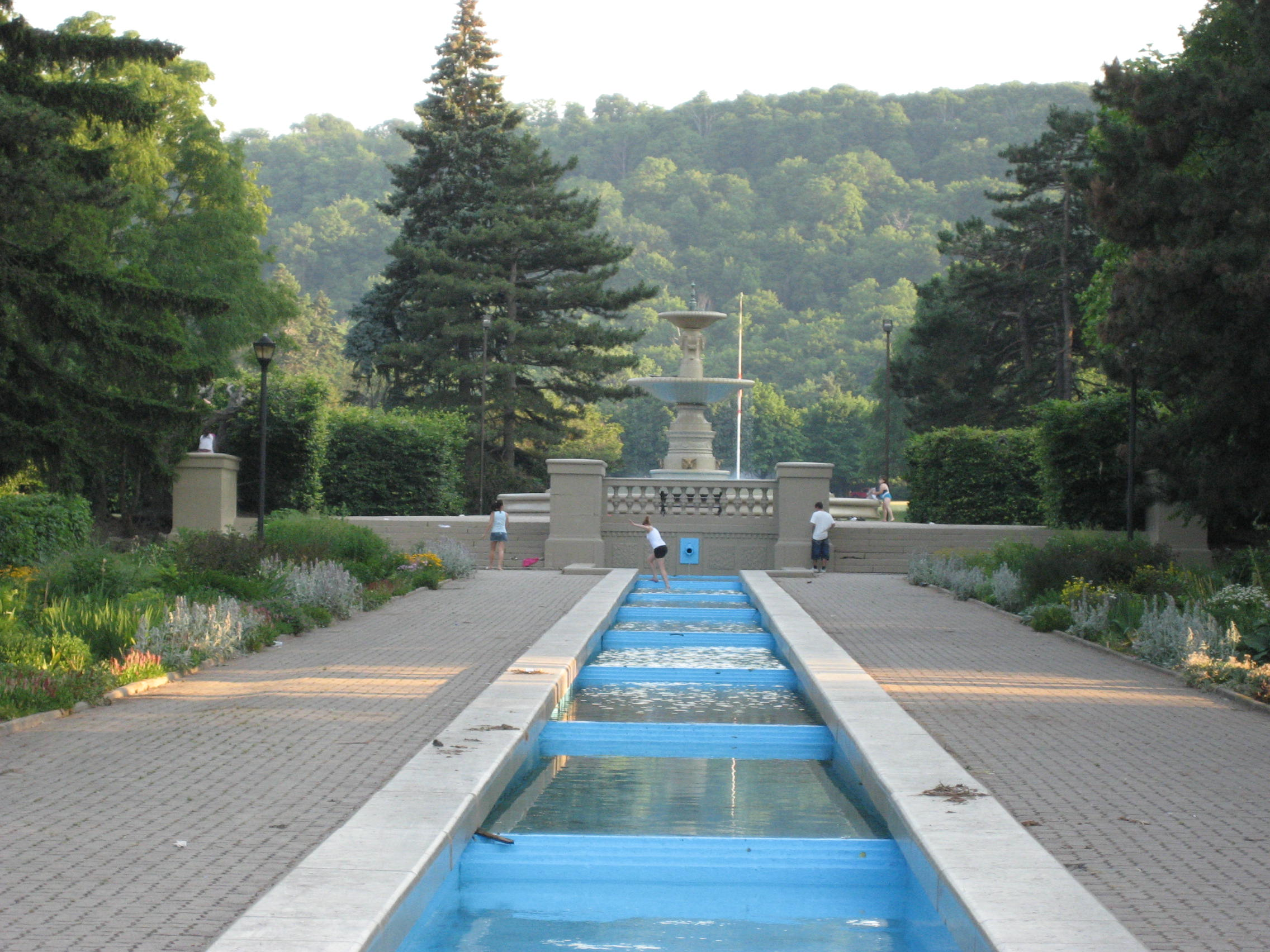 Waterfountain, Gage Park, Gage Avenue South, Hamilton, Ontario